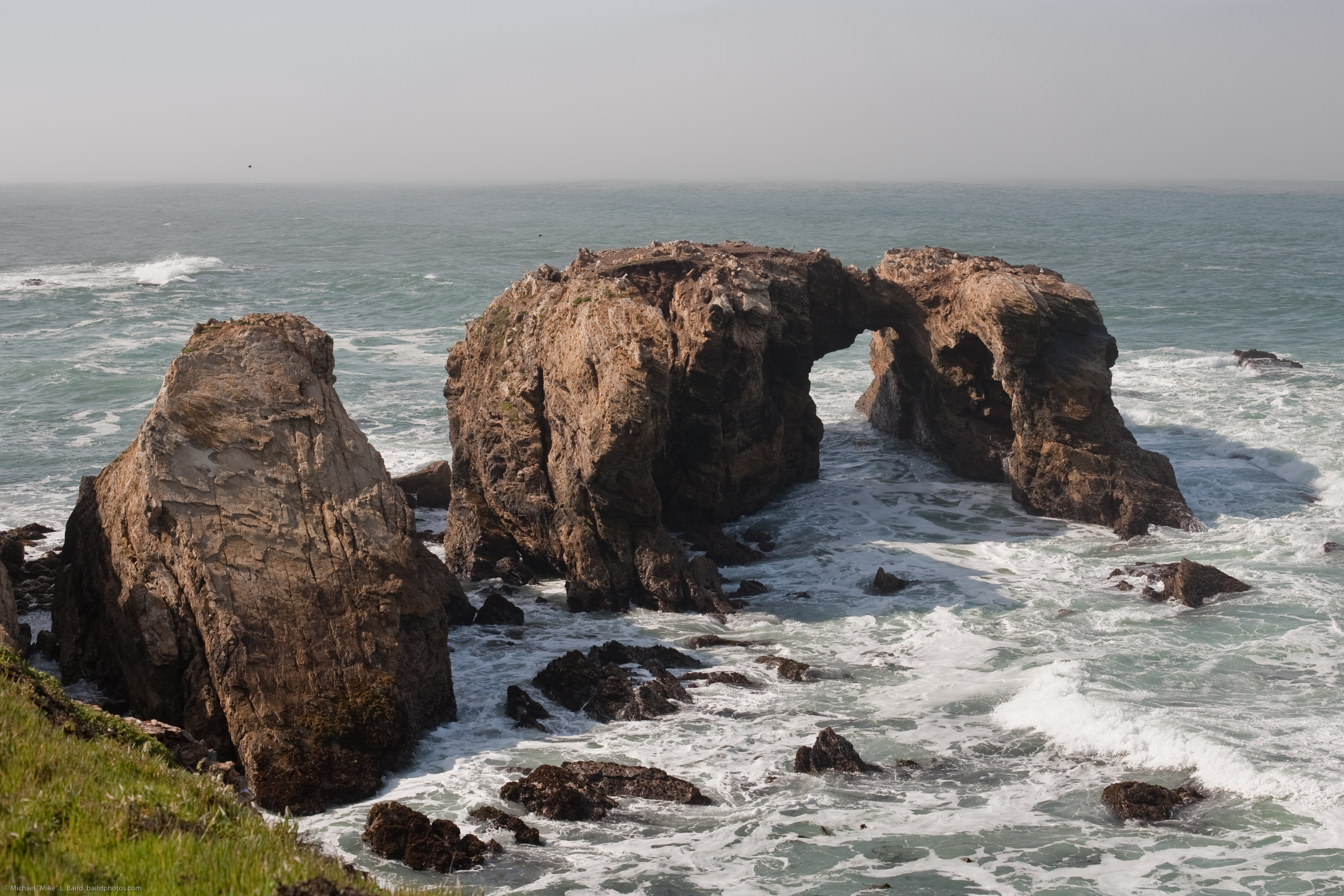 Waterscape with massive arches and stone outcroppings of Miguelito shale — scenery on the Point Buchon Trail. Located south of Montana de Oro State Park and Los Osos, in San Luis Obispo County, California. Photo by Michael "Mike" L. Baird, mike [at} mikebaird d o t com, ; Canon 5D, Canon 50mm f/1.4 IS Lens handheld.